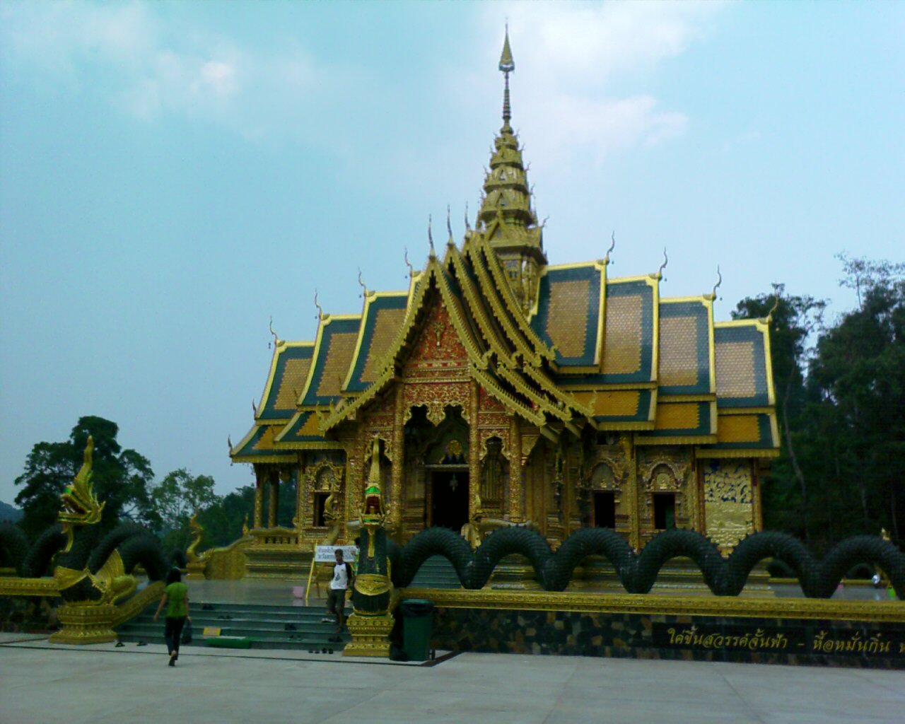 "Wat Phra Puttha Baht Si Roi" means "Temple of four footprints of the Buddha". Its located in Chiang Mai province.